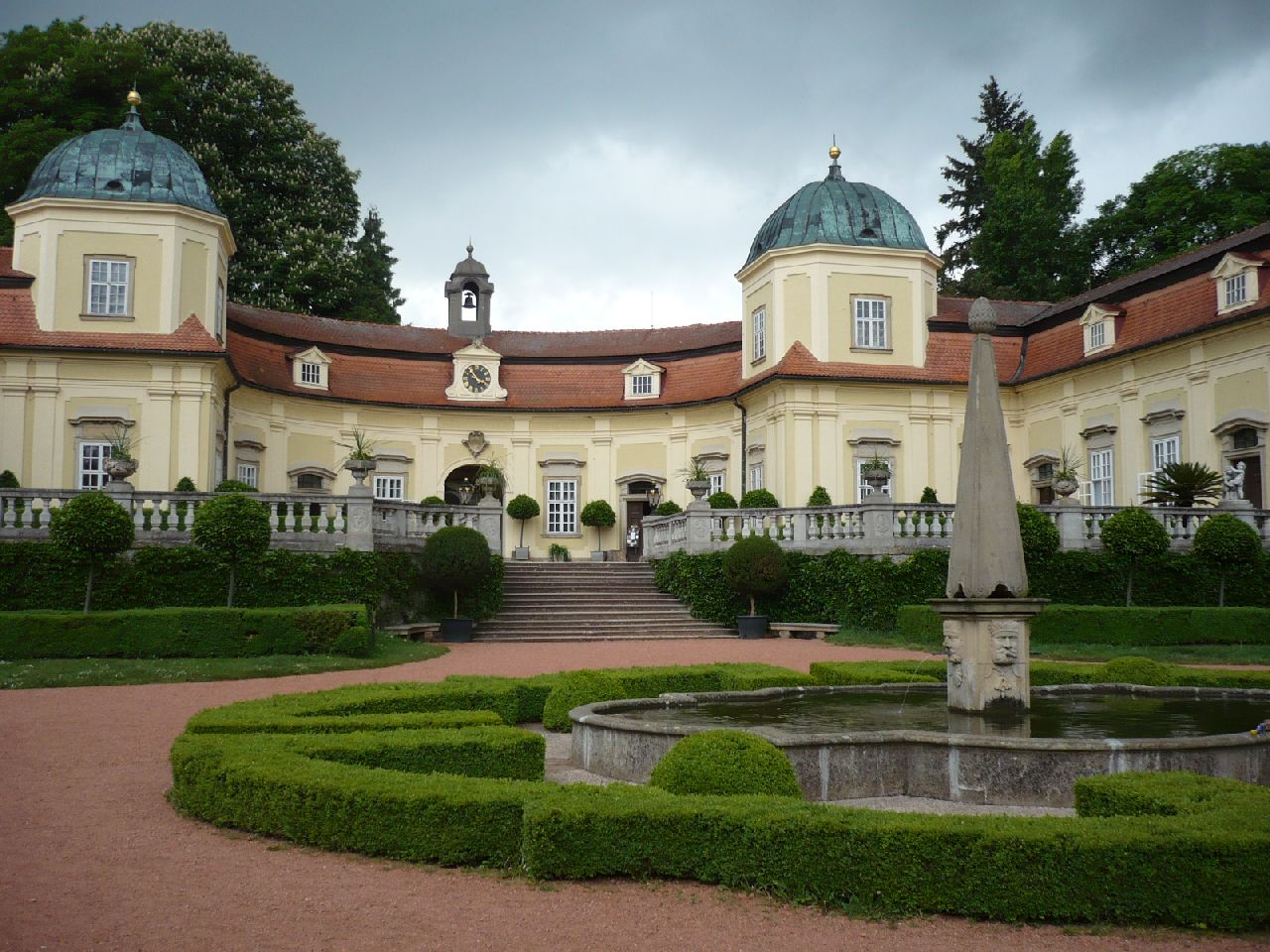 Castle Buchlovice - court with gate